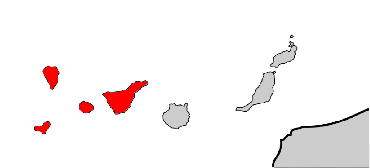 Plecotus teneriffae didtribution map.